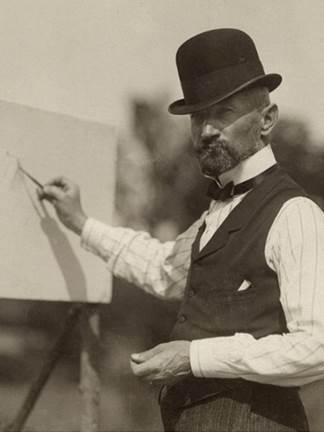 Czech painter Augustin Němejc at the game reserve near Mladotice